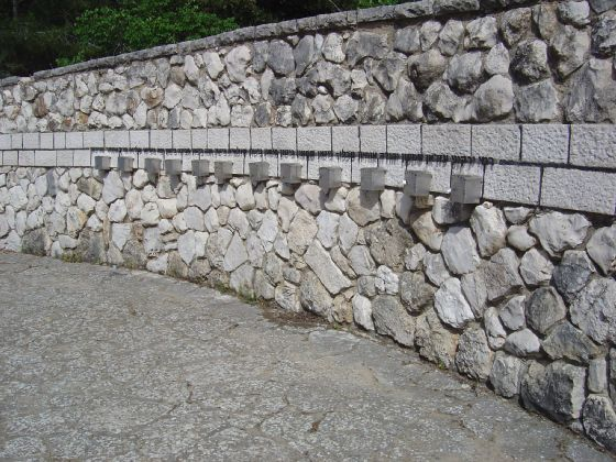 Avivim school bus massacre, May 8, 1970. The monument to victims at the side of the northern road near Avivim and the Lebanon border